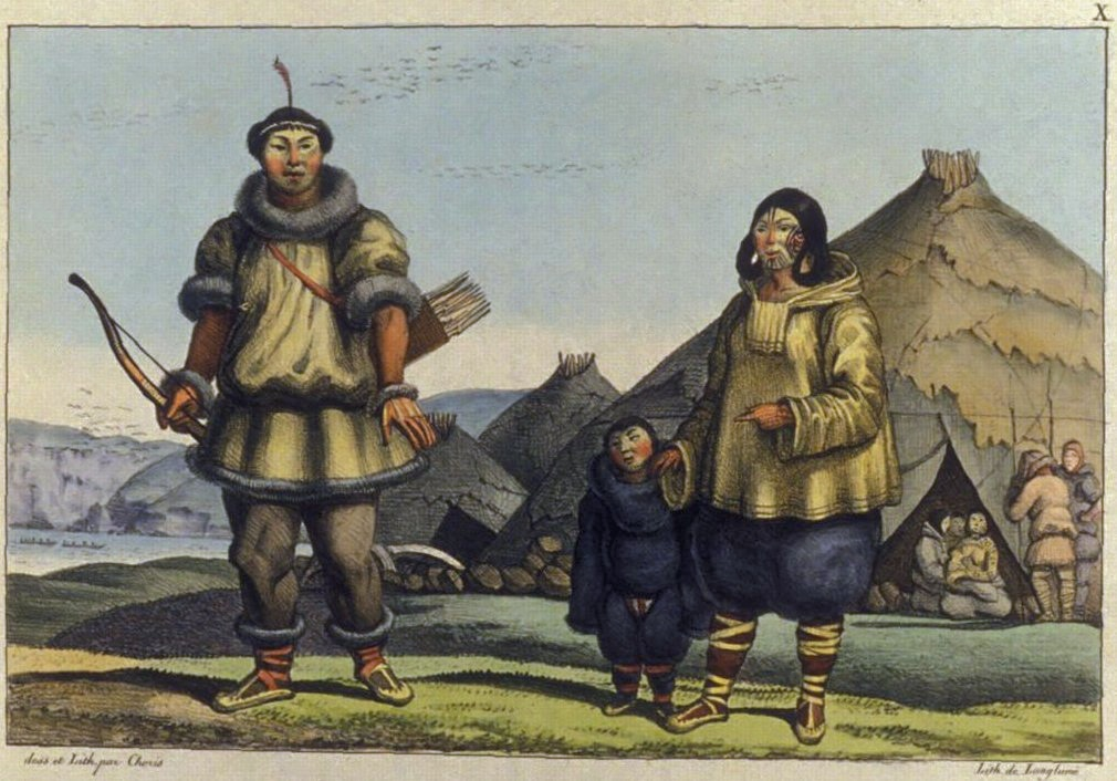 A Chukchi familiy infront of their home near the Bering strait. Drawing by Louis Choris in summer 1816.